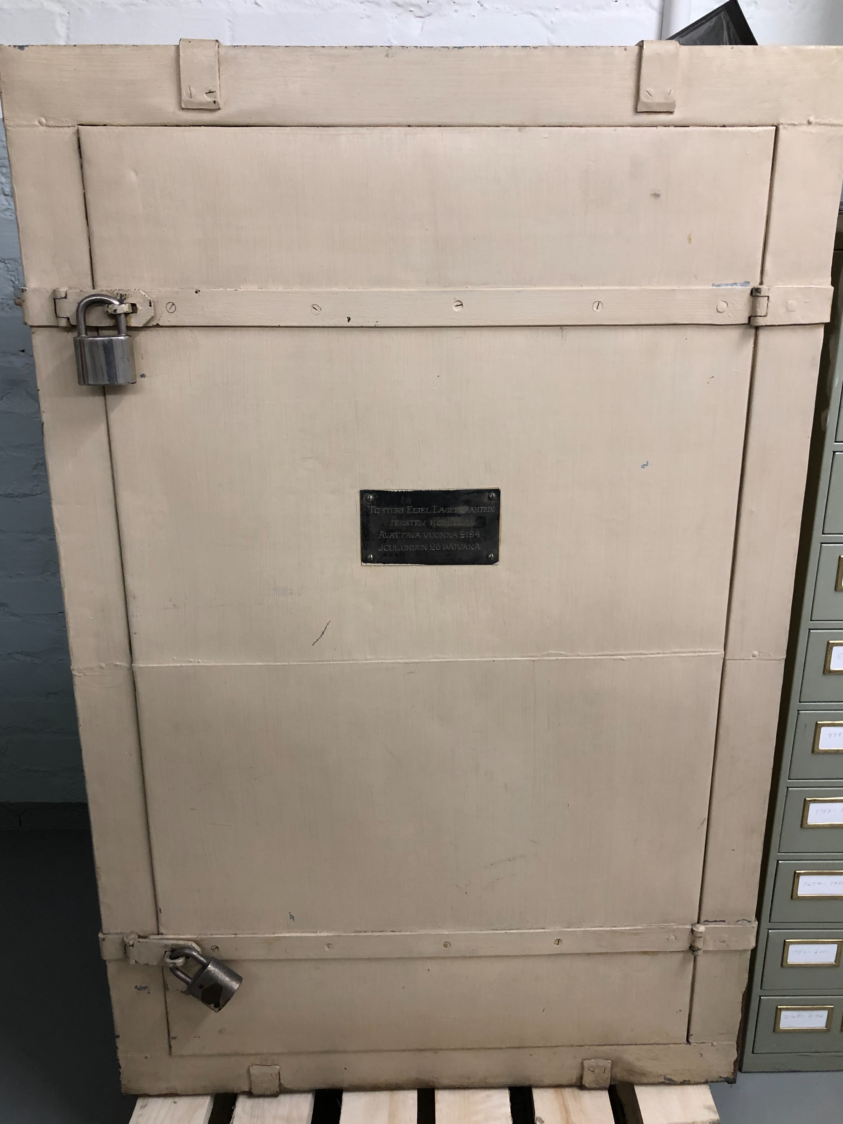 The so-called Lagercrantz locker at the library of the University of Jyväskylä. The locker contains manuscripts, letters and other documents deposited by Eliel Lagercrantz, who decided on an embargo time until the 300th anniversary of his birth on December 26, 2194.